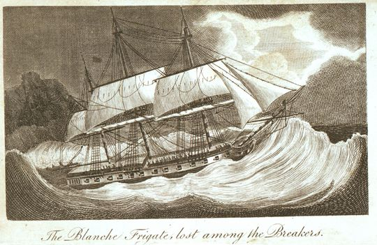 'The Blanche frigate, lost among the Breakers'